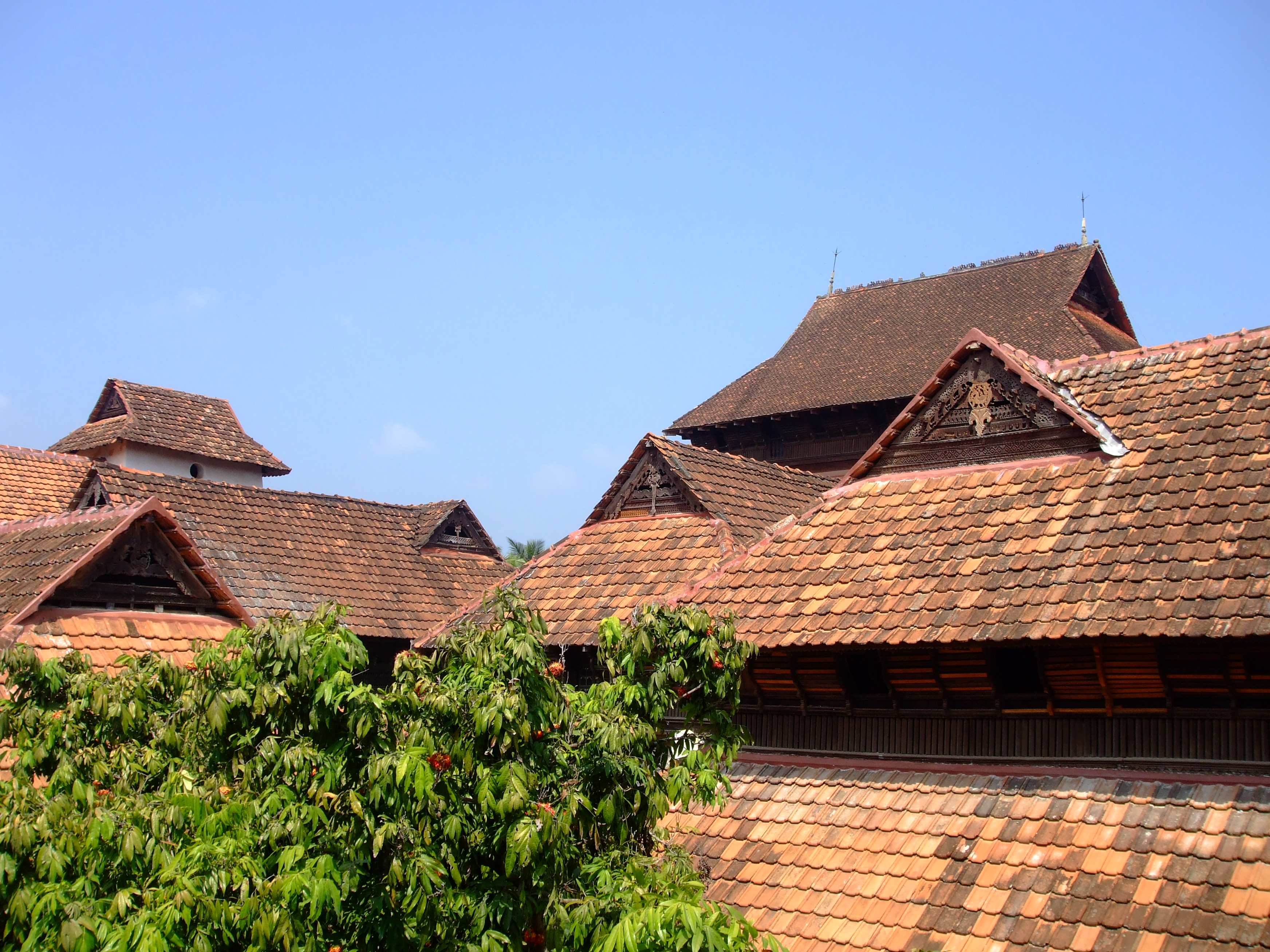 An example of the classic "overlooking" roof style in Kerala Architecture exampled here in Padmanabhapuram Palace.